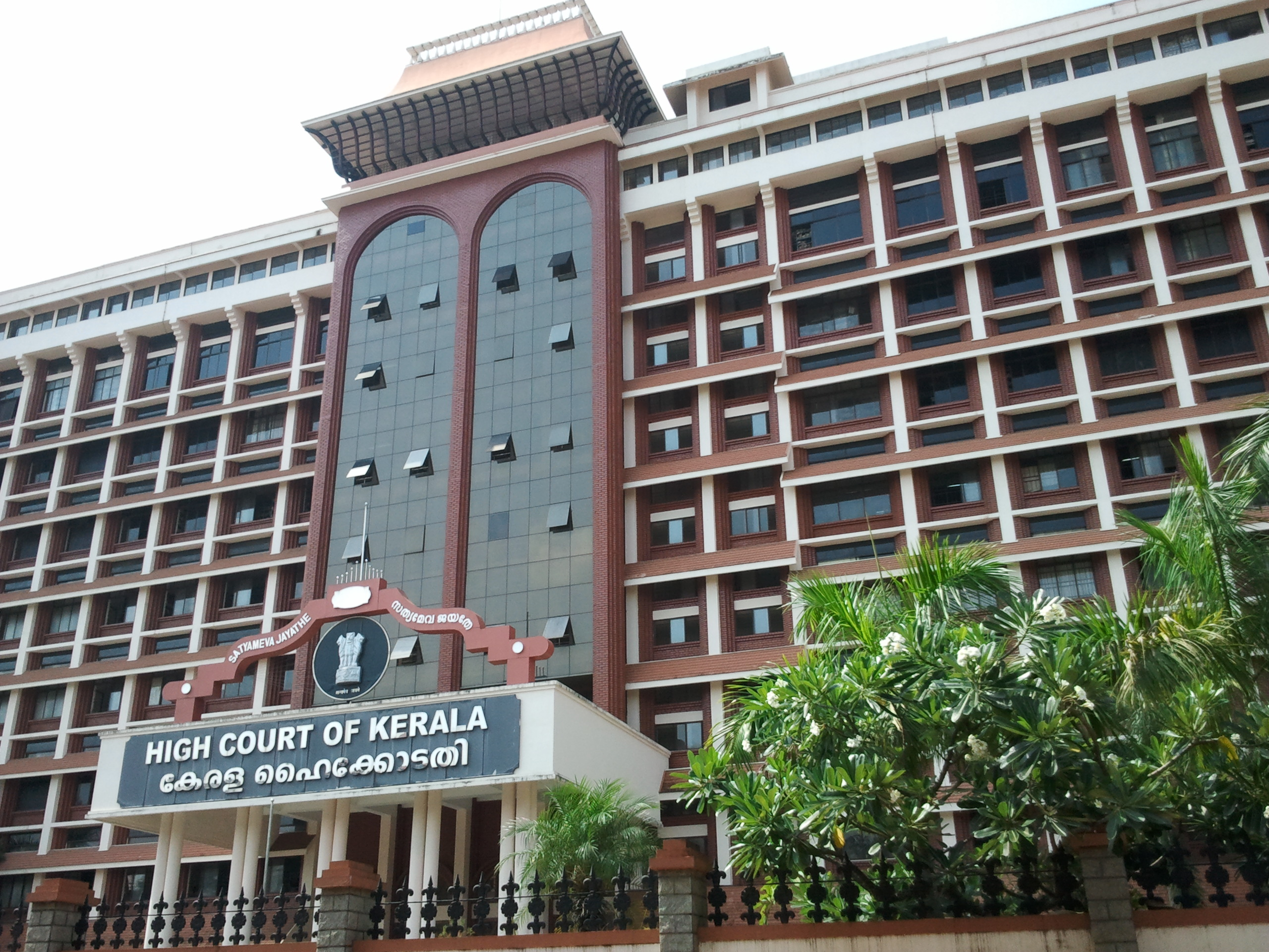 Kerala New High Court building